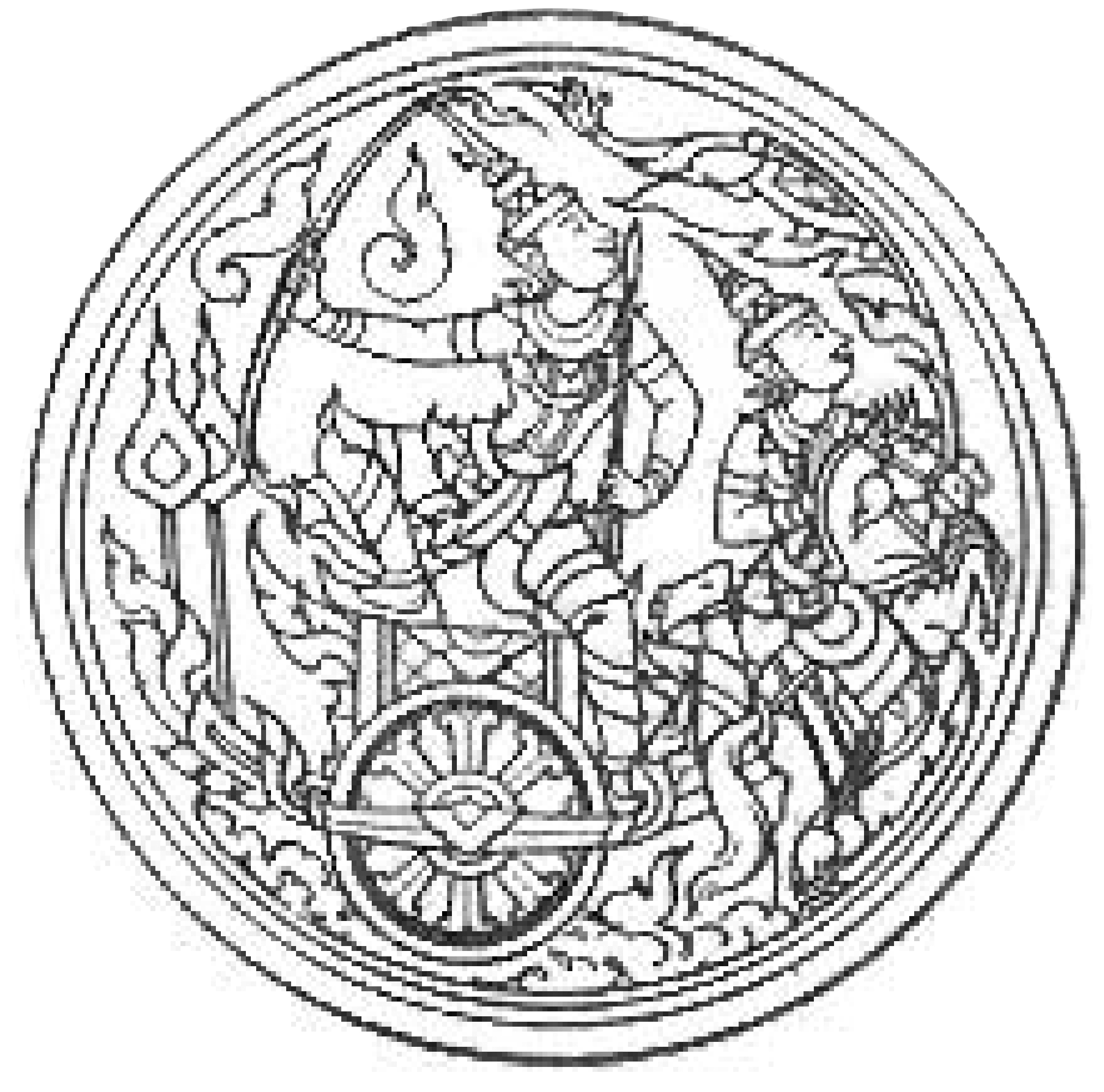 The Seal of Rama on the Chariot, see detailed information in The Royal Emblems and the Positional Seals by Phraya Anumanratchathon (Yong Sathiankoset).